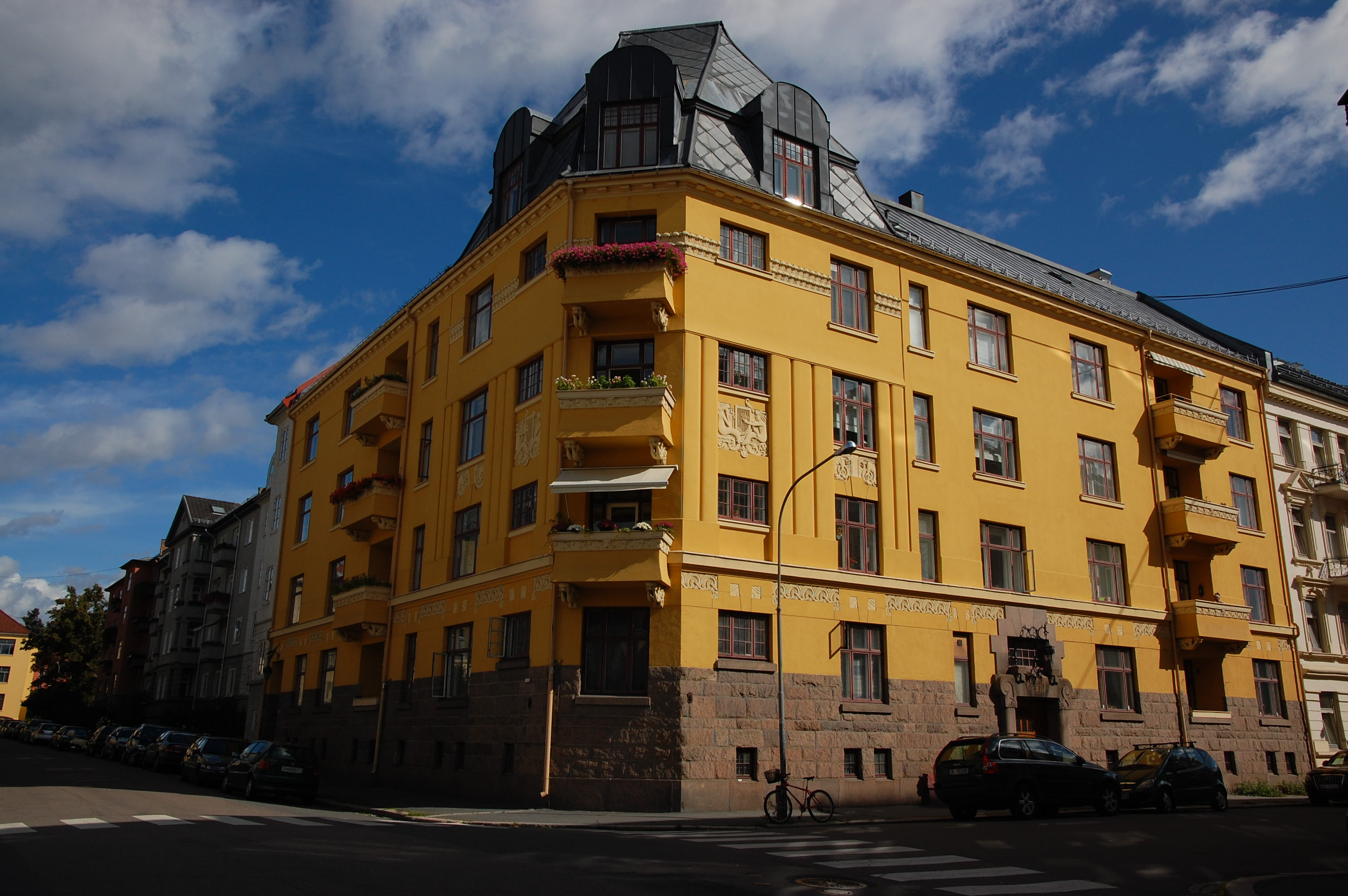 Tors gate 1 in Frogner, Oslo, Norway. House in Art Nouveau by architect Syver Nielsen. 1913.